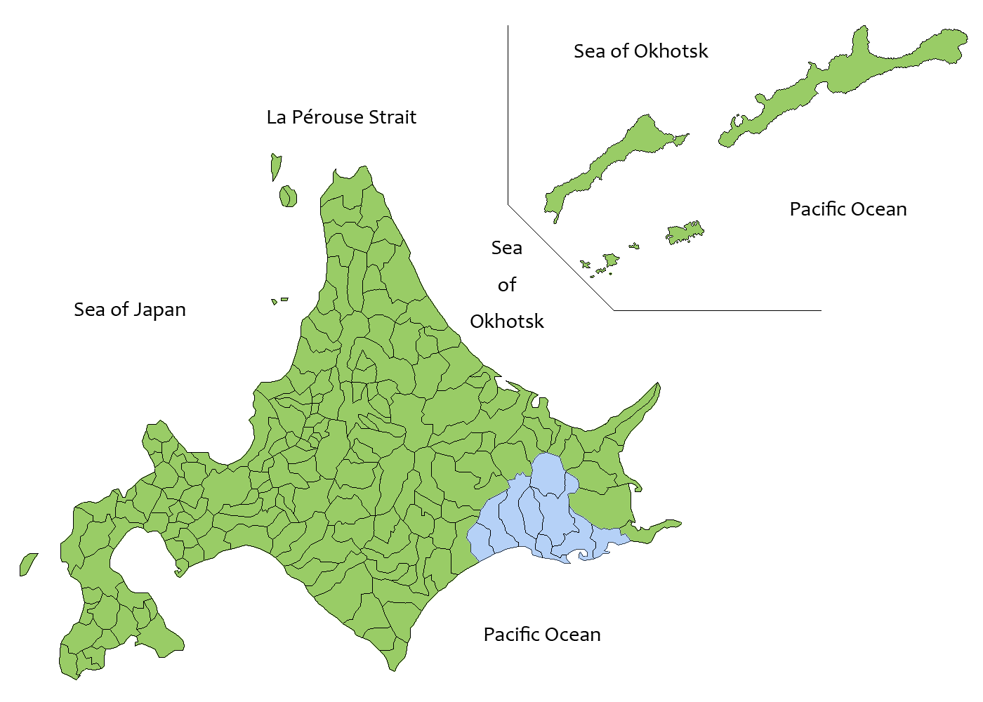 Map of Kushiro subprefecture in English